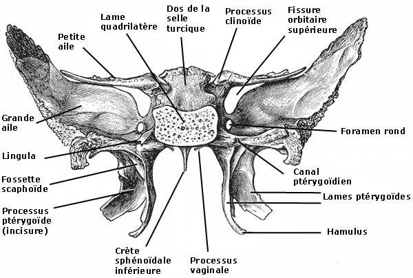 Sphenoid bone. Upper and posterior surfaces.